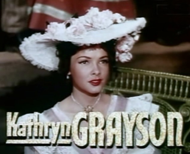 Cropped screenshot of Kathryn Grayson from the trailer for the film The Toast of New Orleans.